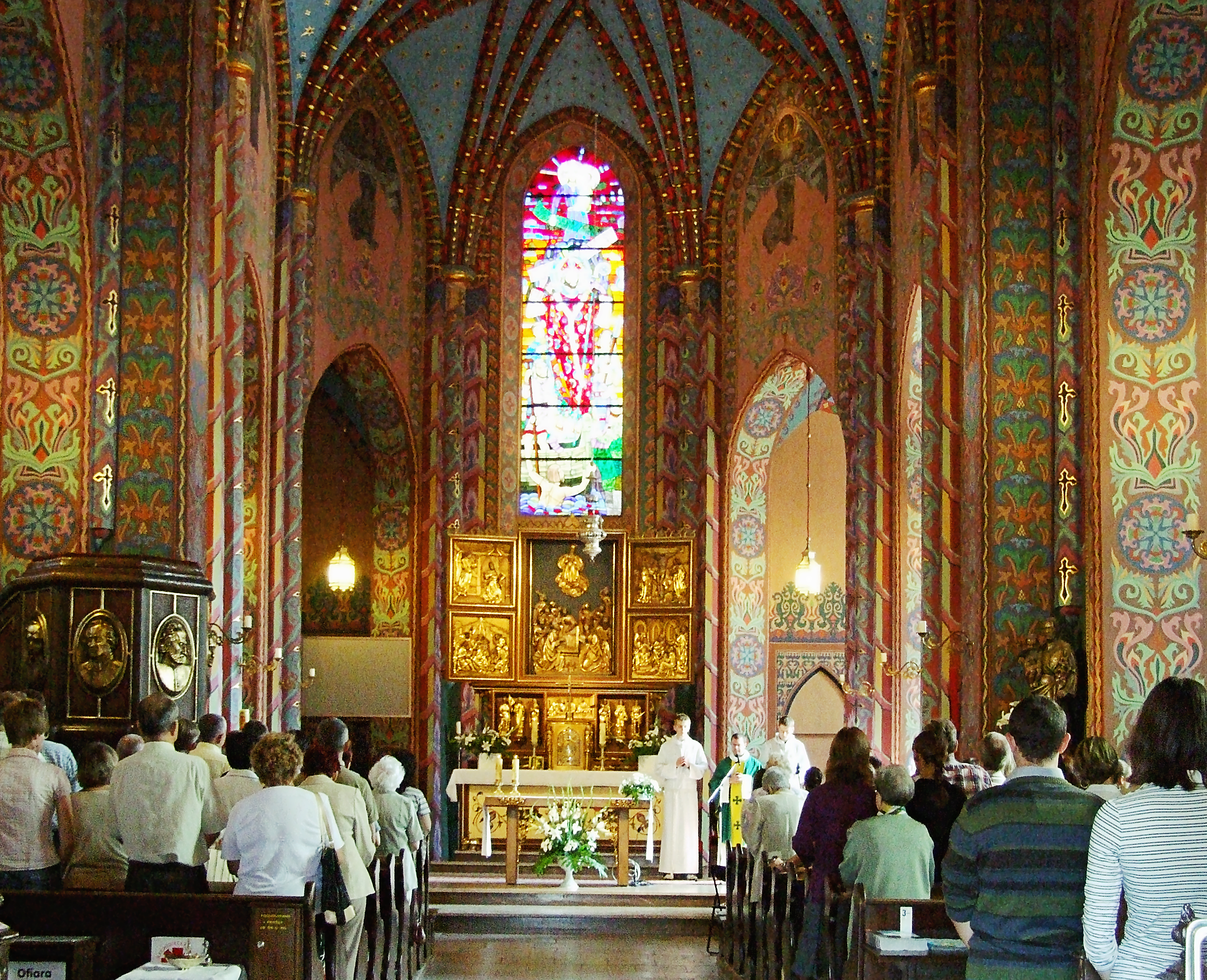 Poznań, Church of Saint Adalbert